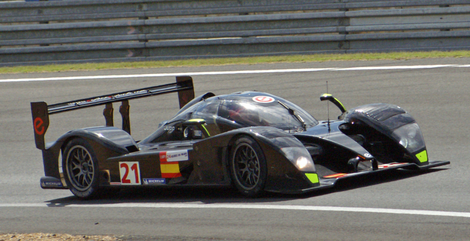 Epsilon Euskadi EE01 Prototype at the 2008 24 Hours of Le Mans.